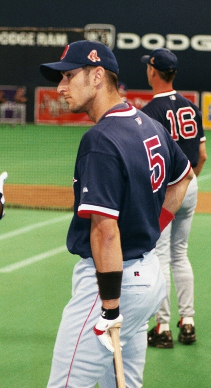 Taken by user and released into public domain. 11:43, 25 October 2006 . . Dlz28 . . 435×800 (268,589 bytes)